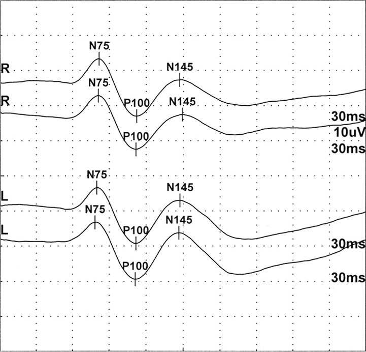 Normal visual evoked potentials of an adult